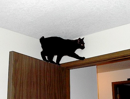 Created by Stephan Price